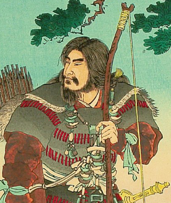 Detail of Emperor Jinmu - Stories from "Nihonki" (Chronicles of Japan), by Ginko Adachi. Woodblock print depicting legendary first emperor Jimmu, who saw a sacred bird flying away while he was in the expedition of the eastern section of Japan.